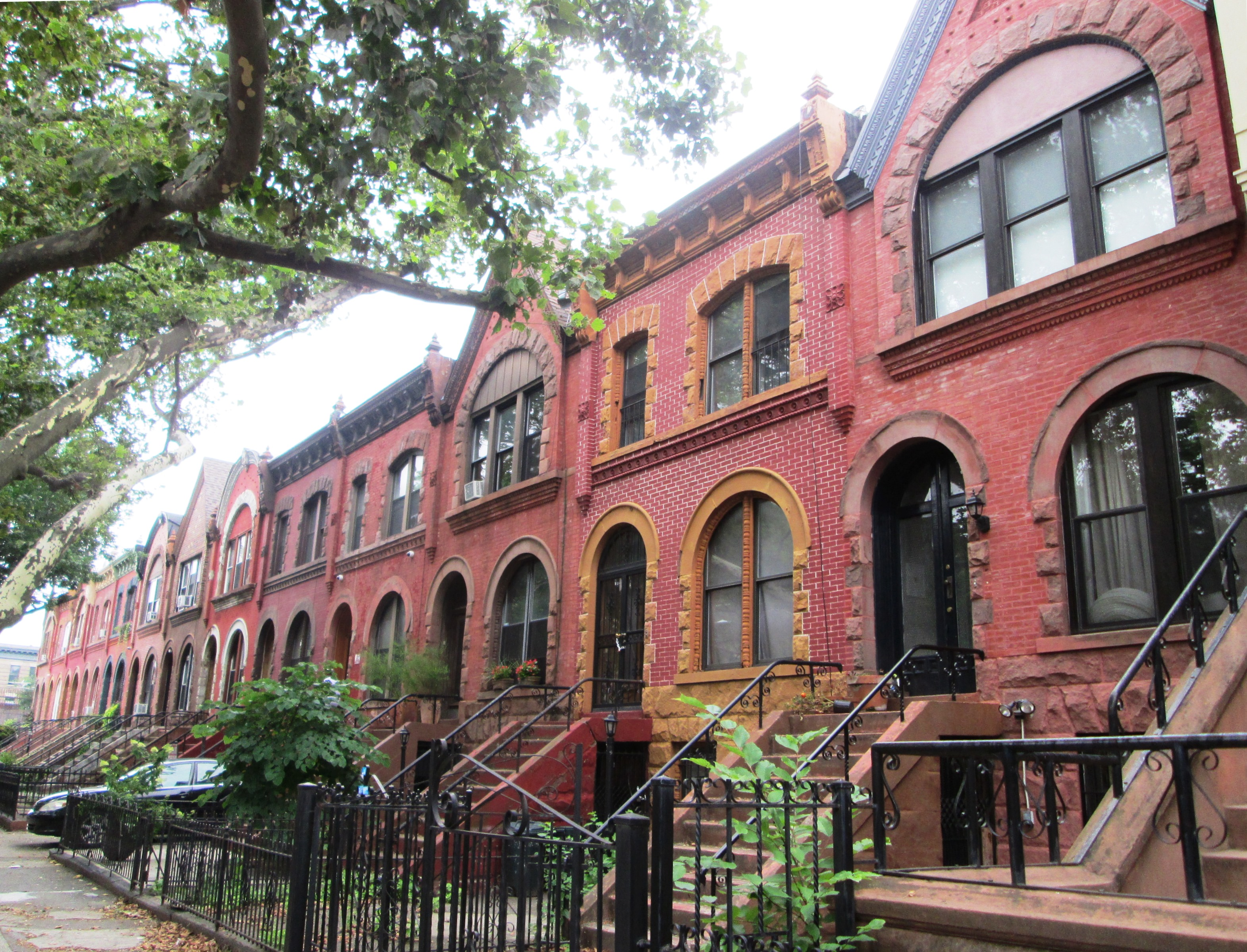 The Park Place Historic District, designated on June 26, 2012, is a small historic district located on Park Place between Bedford and Franklin Avenues in the Crown Heights neighborhood of Brooklyn, New York City. It includes the 13 row houses from 651 (left) to 675 (right) Park Place, which were built in 1899-90 and designed by J. Mason Kirby in a combination of the Queen Anne and Romanesque Revival styles. (Source: "Park Place Historic District Designation Report")